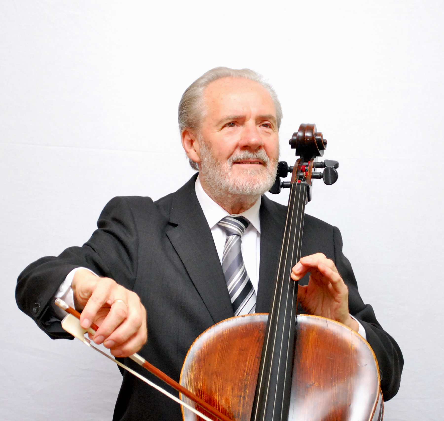 Josef Luitz